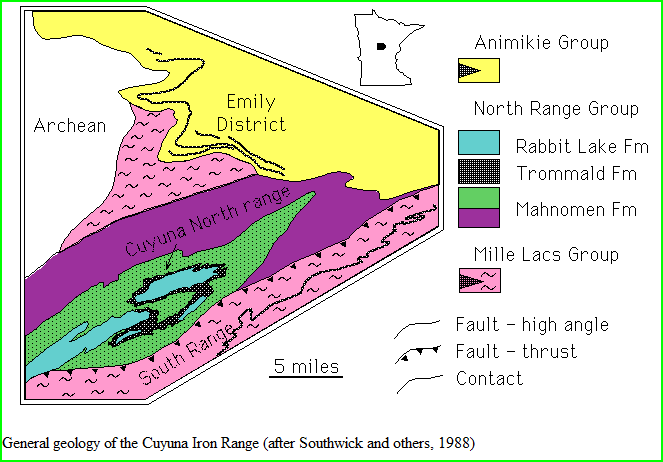 Minnesota's Cuyuna Iron Range's general geology.